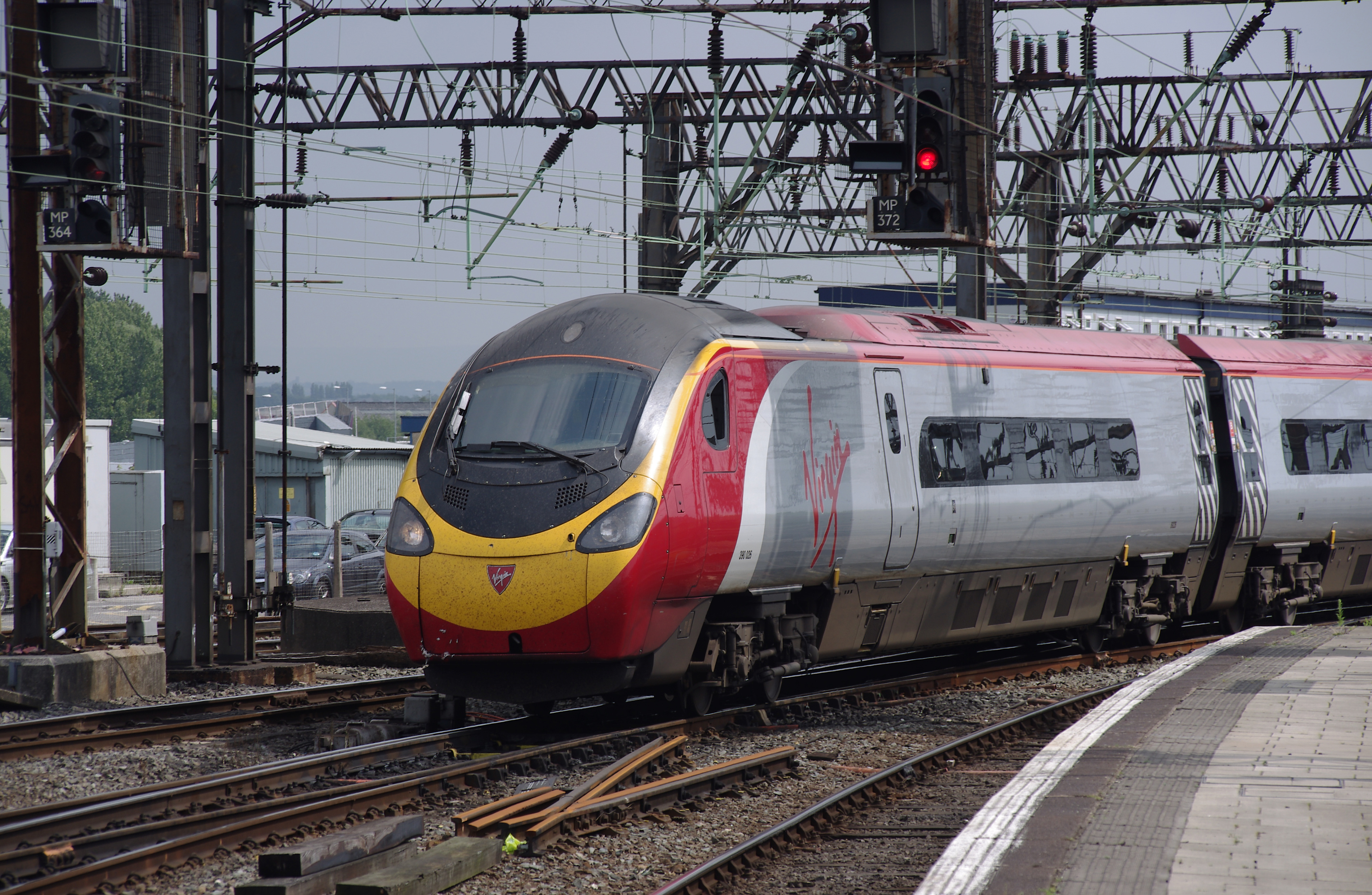 Virgin West Coast Pendolino EMU 390026 arrives at Manchester Piccadilly with a service from London Euston.